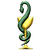 Pharmaceutical Symbol